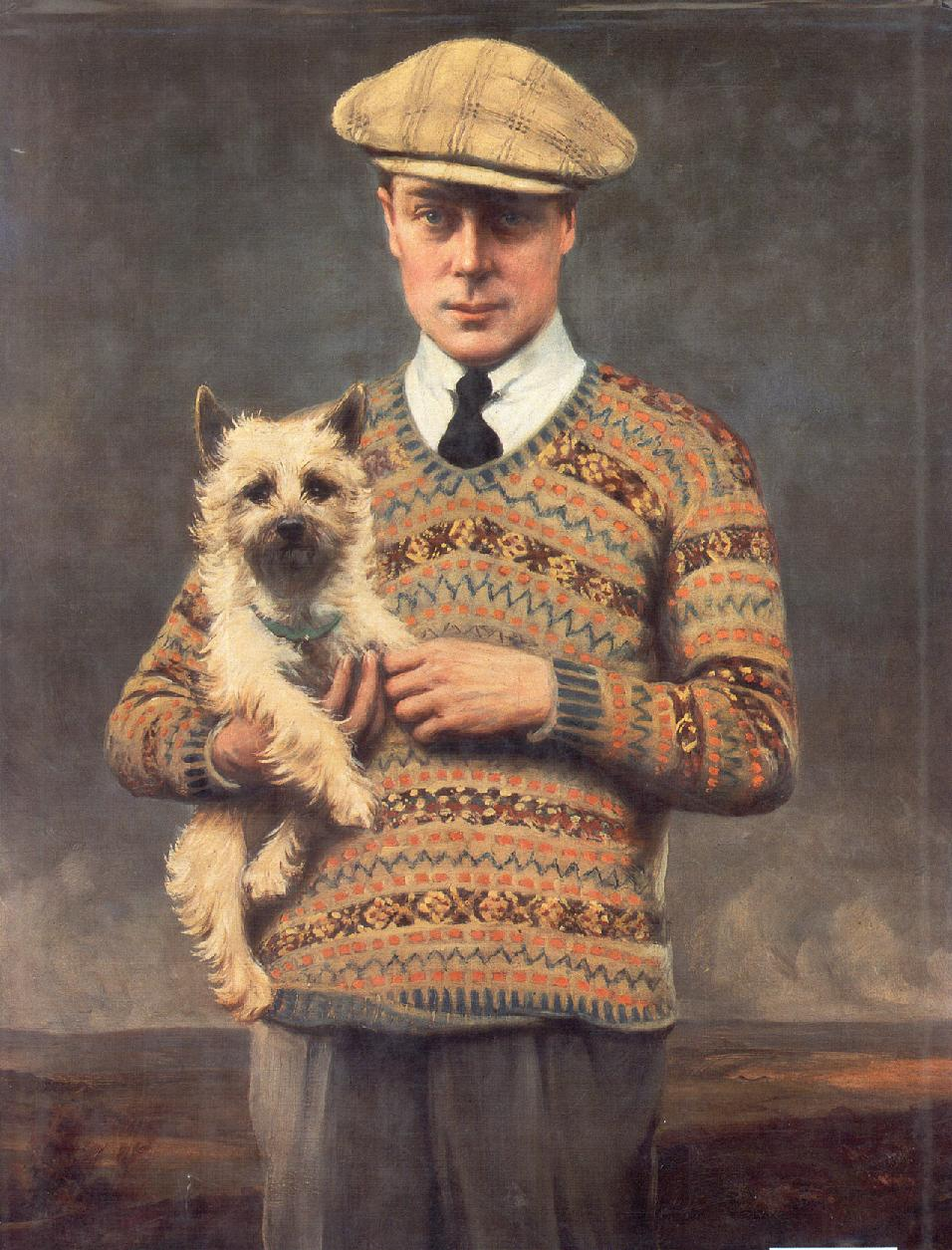 Prince of Wales, painting by Lander